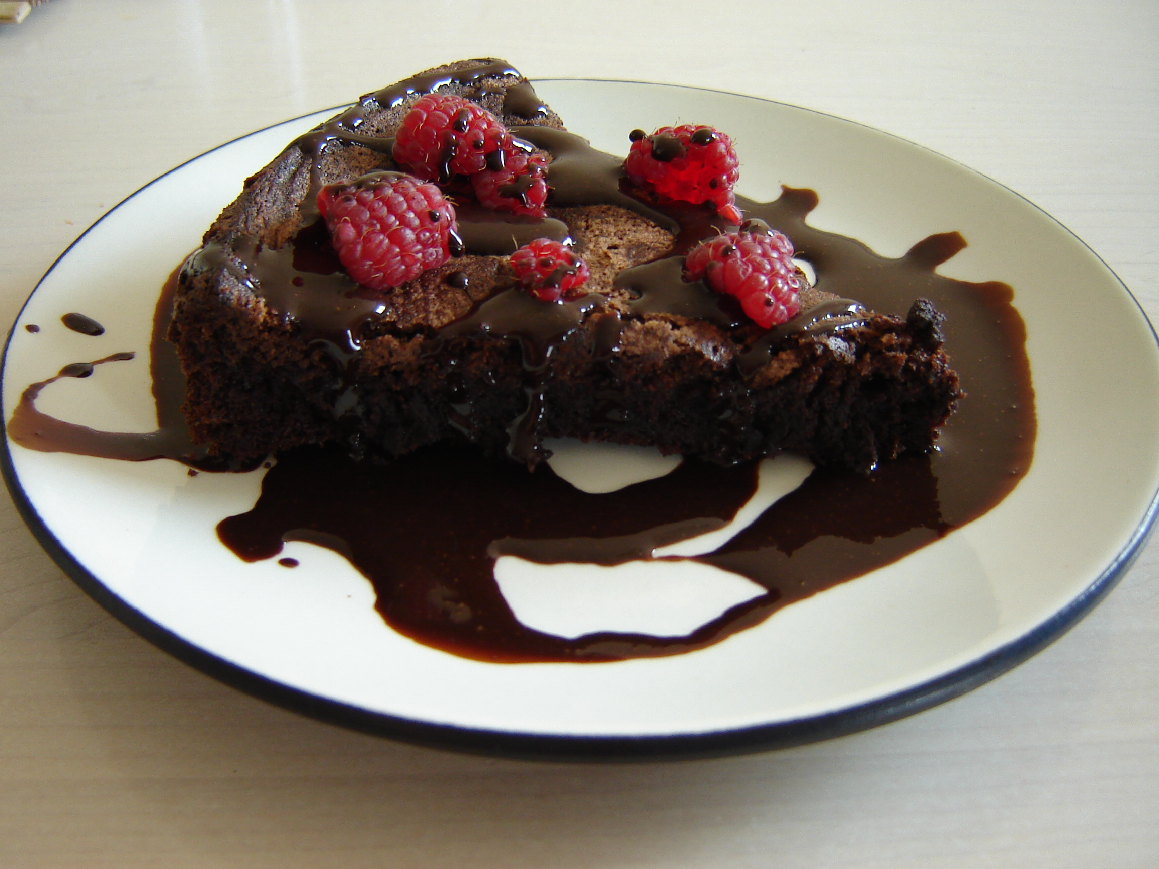 Flourless Chocolate Cake / Torte